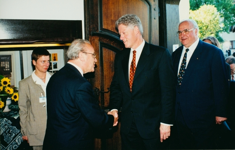 Bill Clinton and Helmut Kohl at the Bach House, Eisenach, 14 May 1998